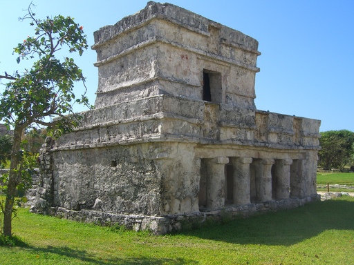 The "Temple of Frescoes" at Tulum, Q. Roo